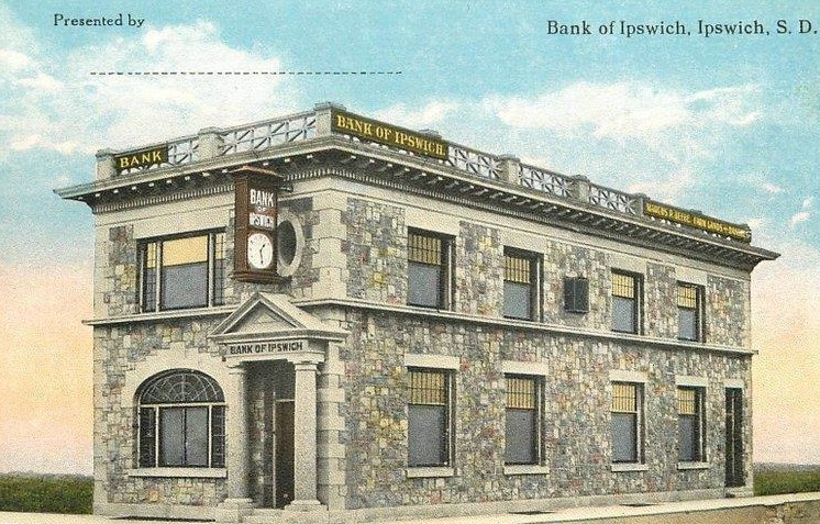 1910 postcard of Ipswich State Bank, South Dakota, United States